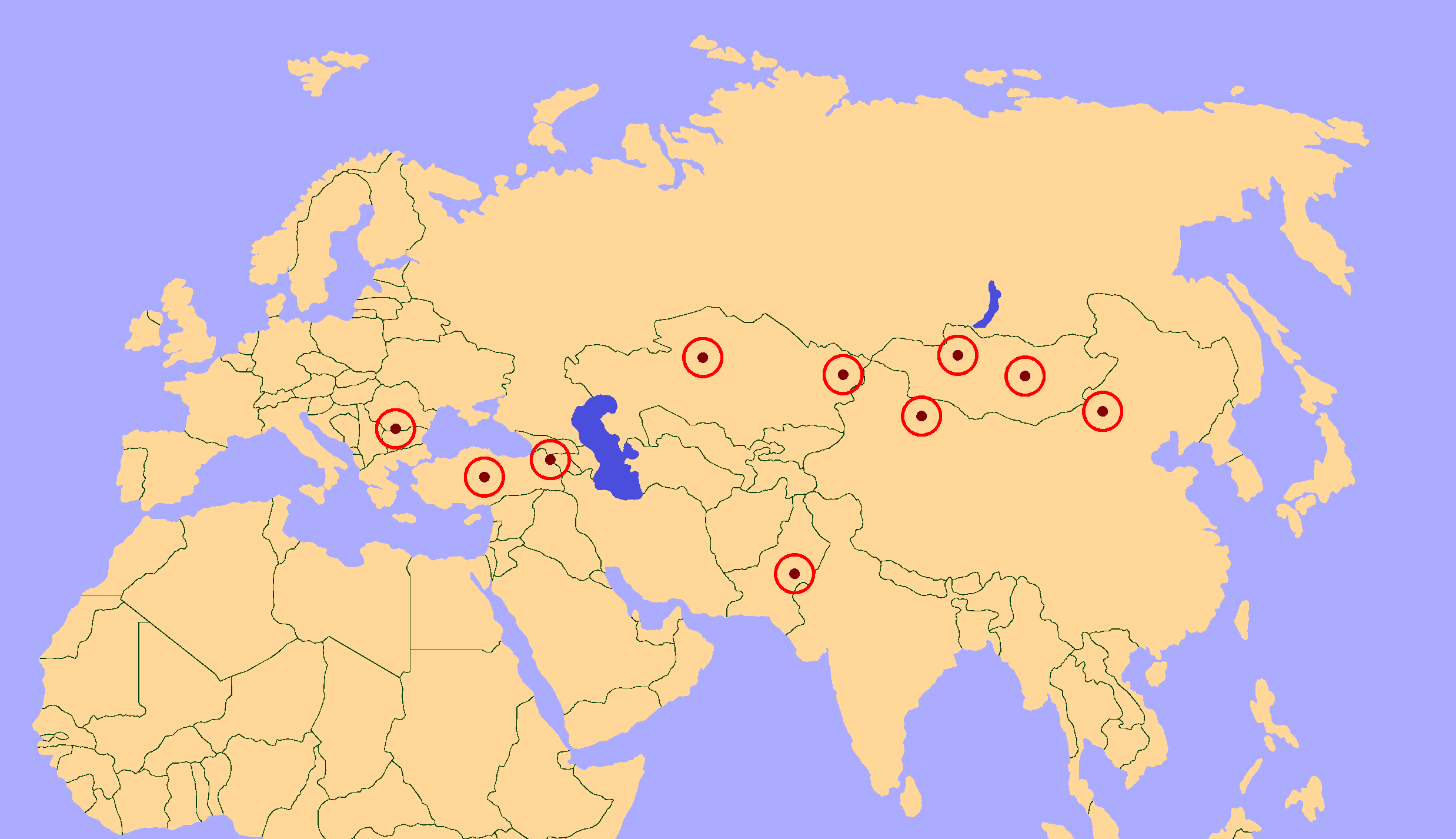 Distribution of Paraceratherium, drawn after Donald R. Prothero: Rhino giants: The palaeobiology of Indricotheres. Indiana University Press, 2013, pp. 1–141 ISBN 978-0-253-00819-0 and Sevket Sen, Pierre-Olivier Antoine, Bakit Varol, Turban Ayyiidiz und Koray Sozeri: Giant rhinoceros Paraceratherium and other vertebrates from Oligocene and middle Miocene deposits of the Kazman-Tuzluca Basin, Eastern Turkey. Naturwissenschaften 98 (5), 2011, pp. 407–423